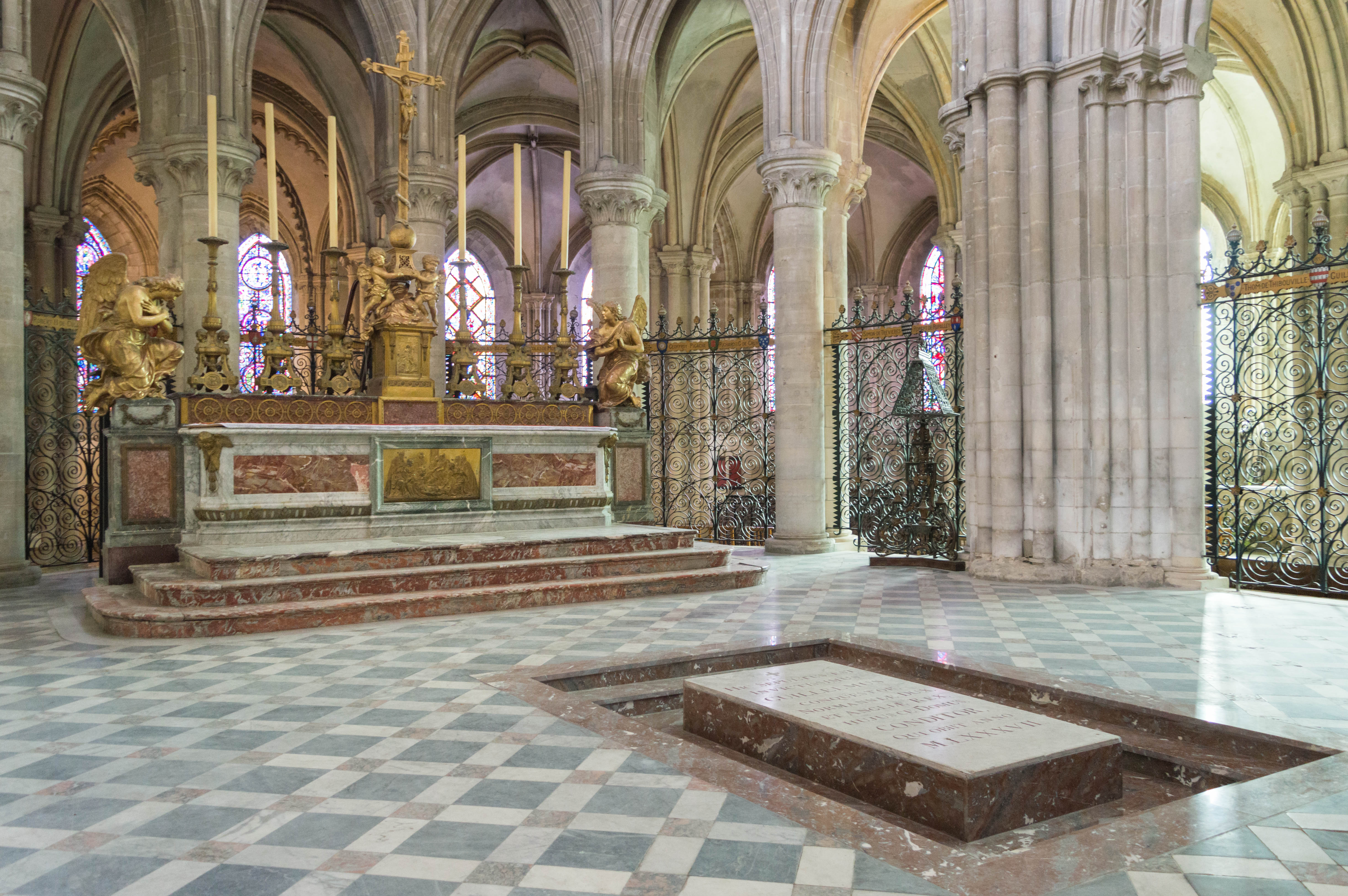 The interior of the church of Saint-Étienne, Abbaye aux Hommes, Caen.